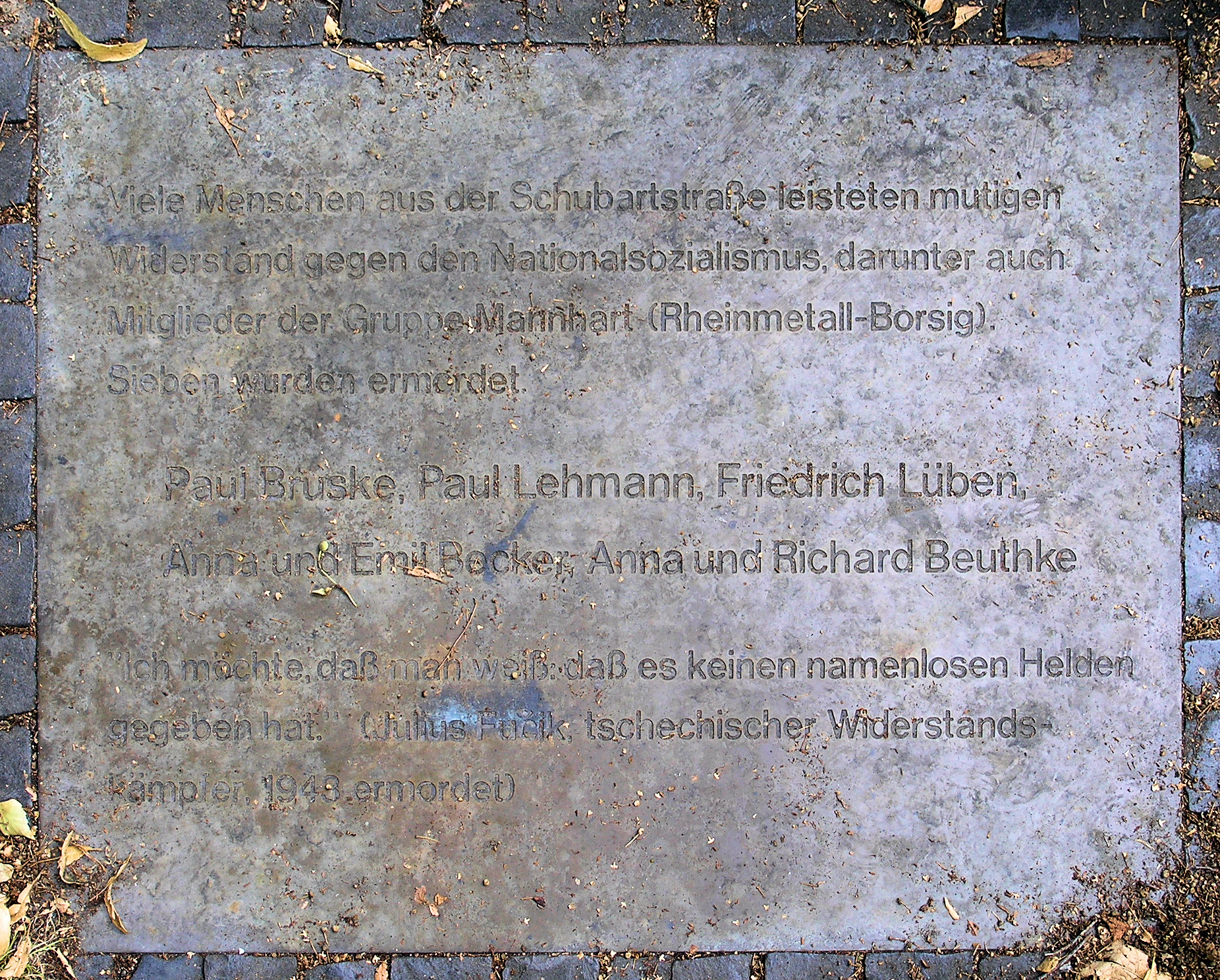 Memorial plaque, Widerstandsgruppe Mannhart, Schubartstraße 55, Berlin-Borsigwalde, Germany